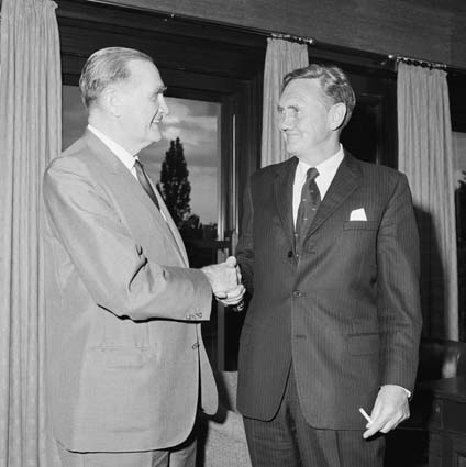 Prime Minister John McEwen congratulating Senator John Gorton on his election as Liberal leader